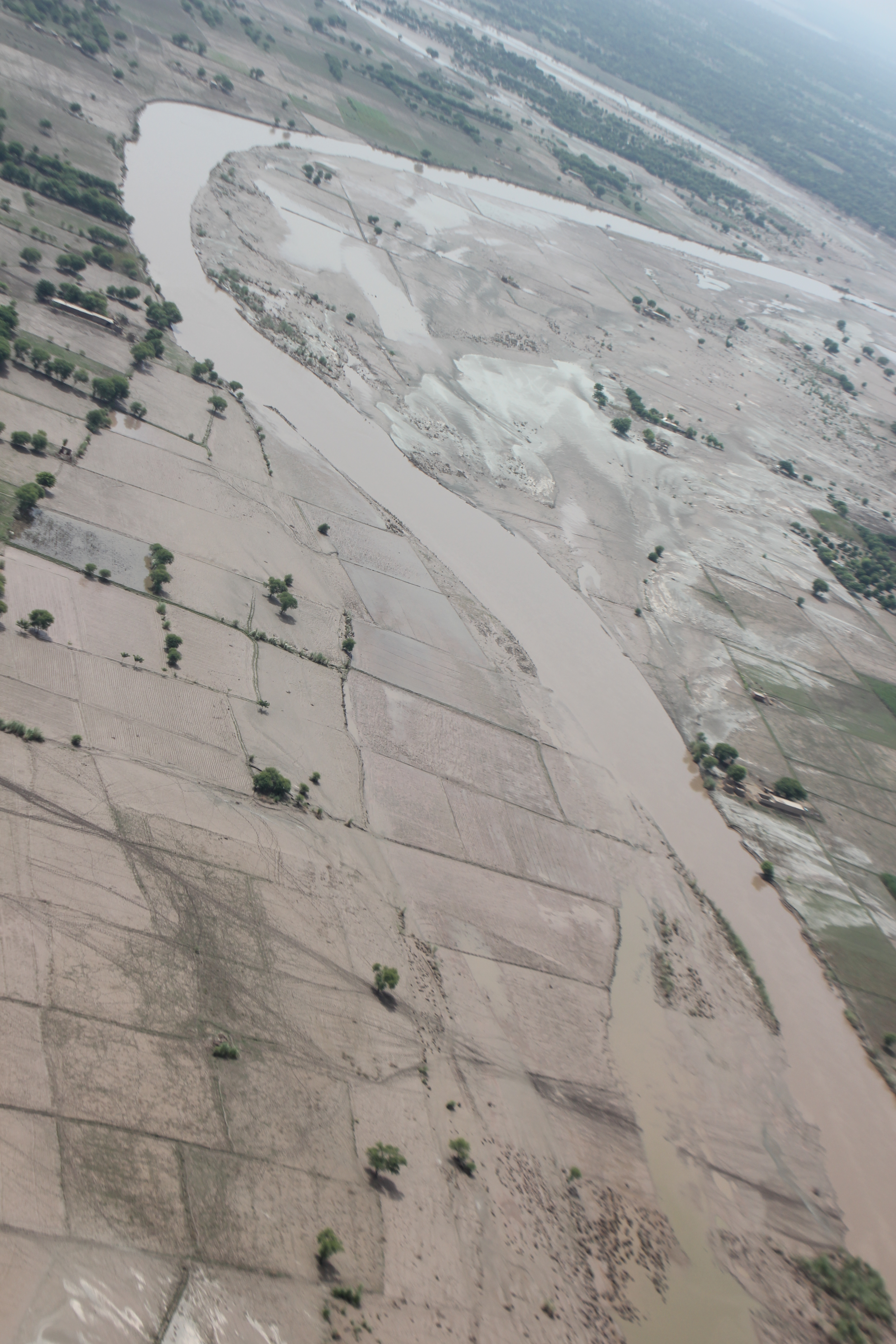 Aerial view of the floods, pakistan 2010. Photo: Australian Government